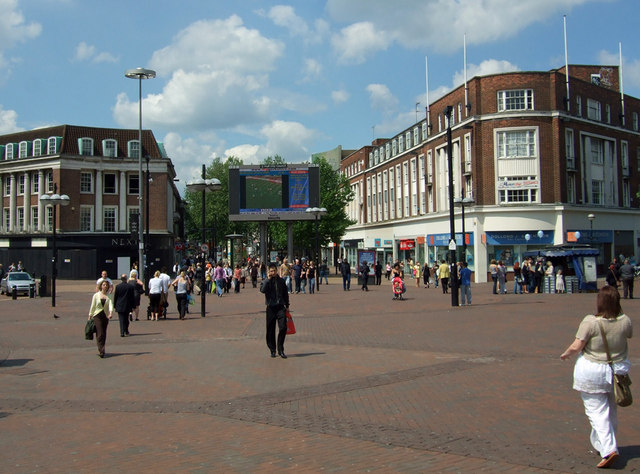 Queen Victoria Square, Hull, East Riding of Yorkshire, England.Photo taken looking towards King Edward Street. In the centre of the picture is a giant TV screen. This appeared to be showing a repeat version of Hull gaining promotion to the premiership.